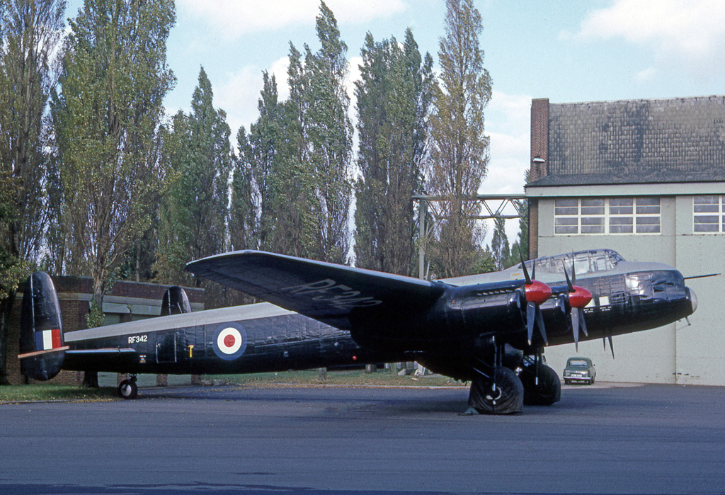 Avro Lincoln B.2 RF342 at Cranfield in 1966